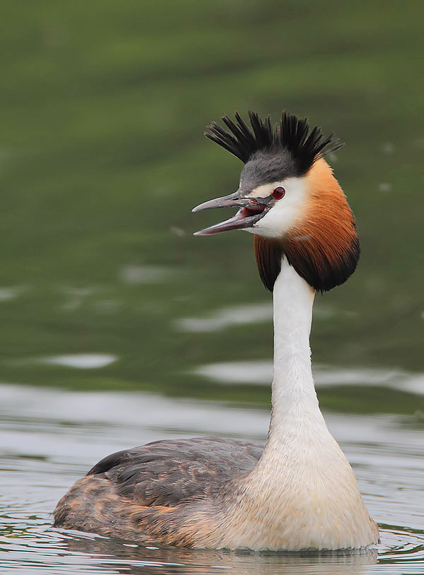 This bird was calling for its partner which had drifted off out of view. Image taken at Birnie Loch, Fife, Scotland.